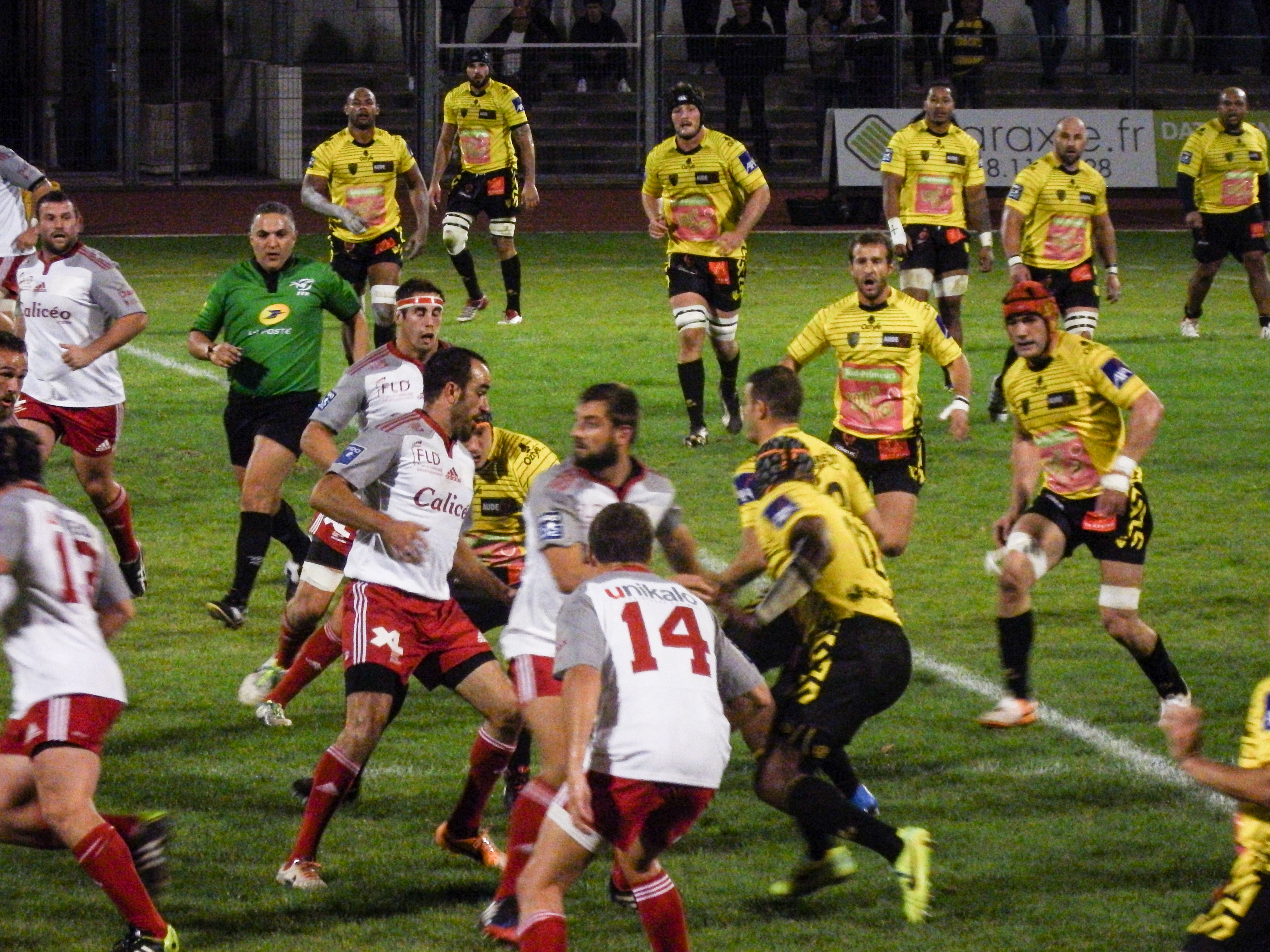 Pro D2 2014-2015 — 1 November 2014, stade Albert-Domec. Match between: US Carcassonne — US Dax